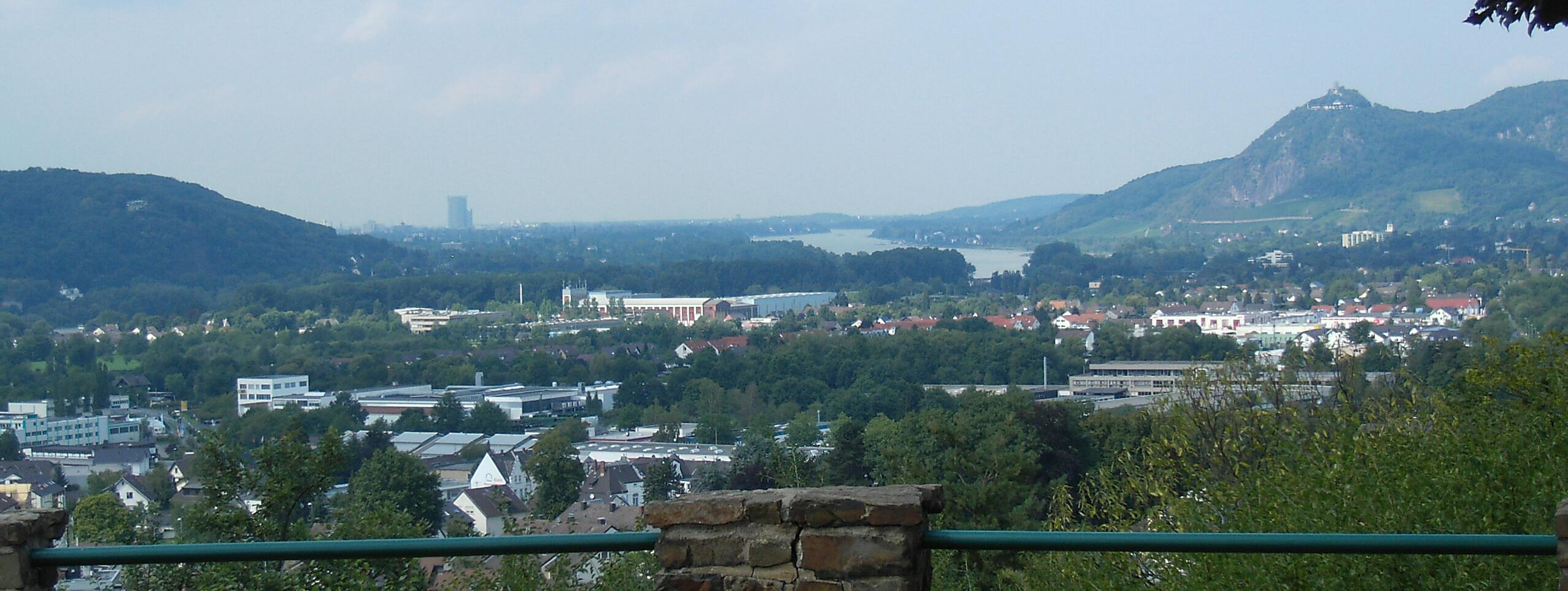 View of Bad Honnef and Bonn from the elevation Koppel in Rheinbreitbach. In the background the highrises Post Tower and Langer Eugen can be seen.